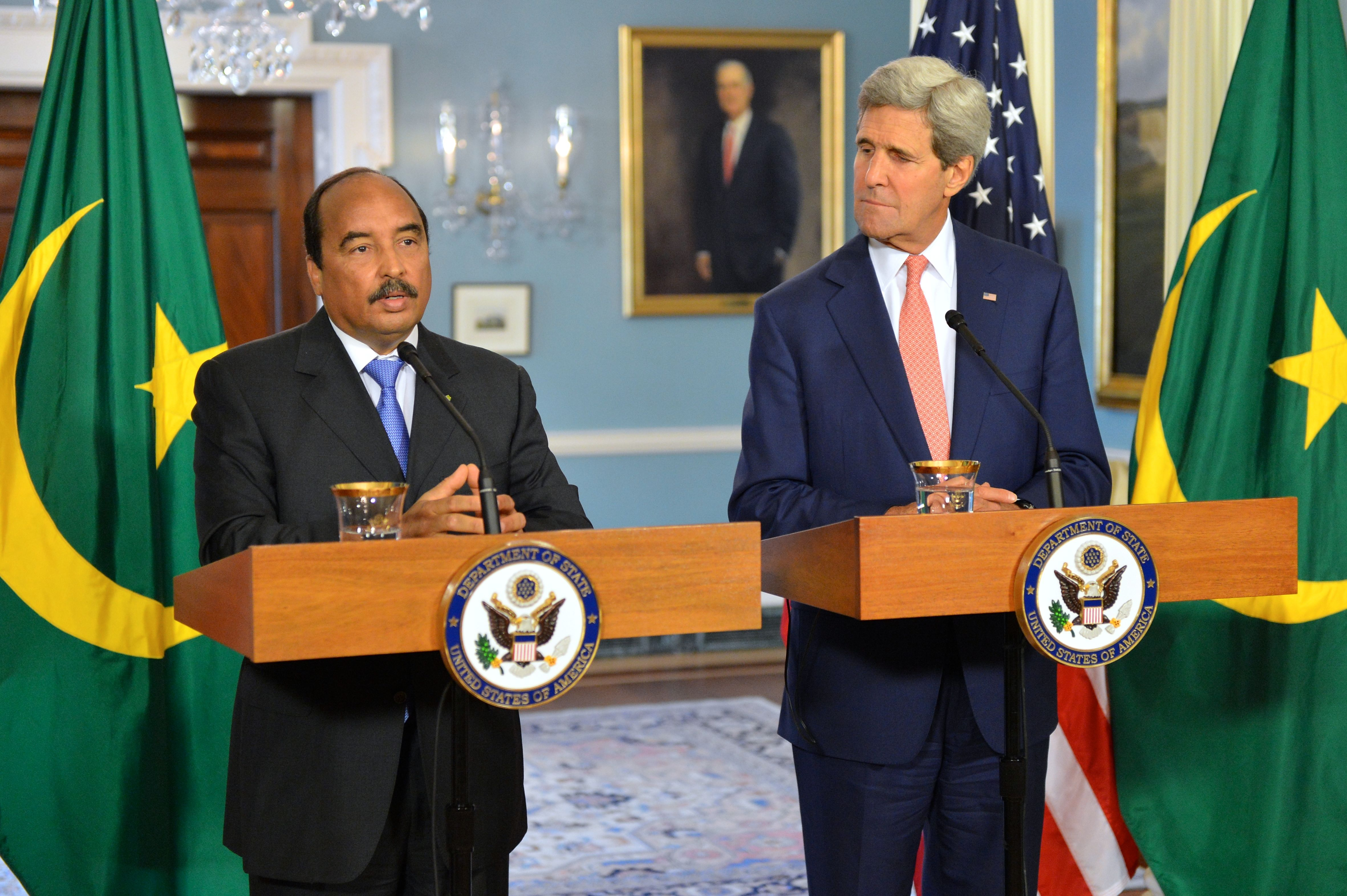 U.S. Secretary of State John Kerry and Mauritanian President Mohamed Ould Abdel Aziz address reporters before their bilateral meeting at the U.S. Department of State in Washington, D.C., on August 4, 2014. Leaders from across the African continent are in the nation's capital for a three-day U.S.-Africa Leaders Summit, the largest event any U.S. President has held with African heads of state and government. [State Department photo/ Public Domain]